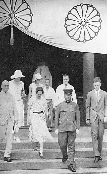 Charles Lindbergh and his wife visit to the Yasukuni Shrine